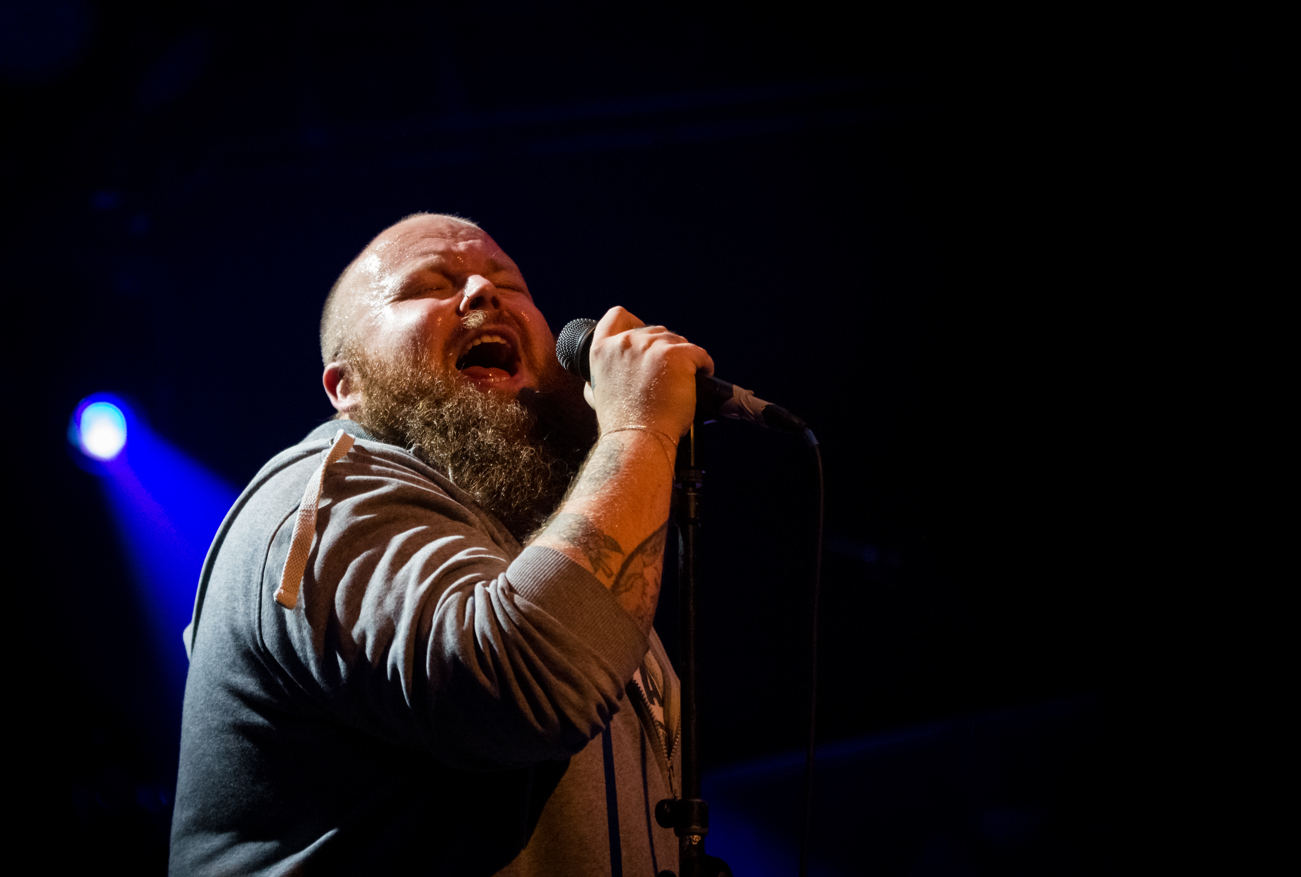 Andreas Kümmert - Leverkusener Jazztage 2016